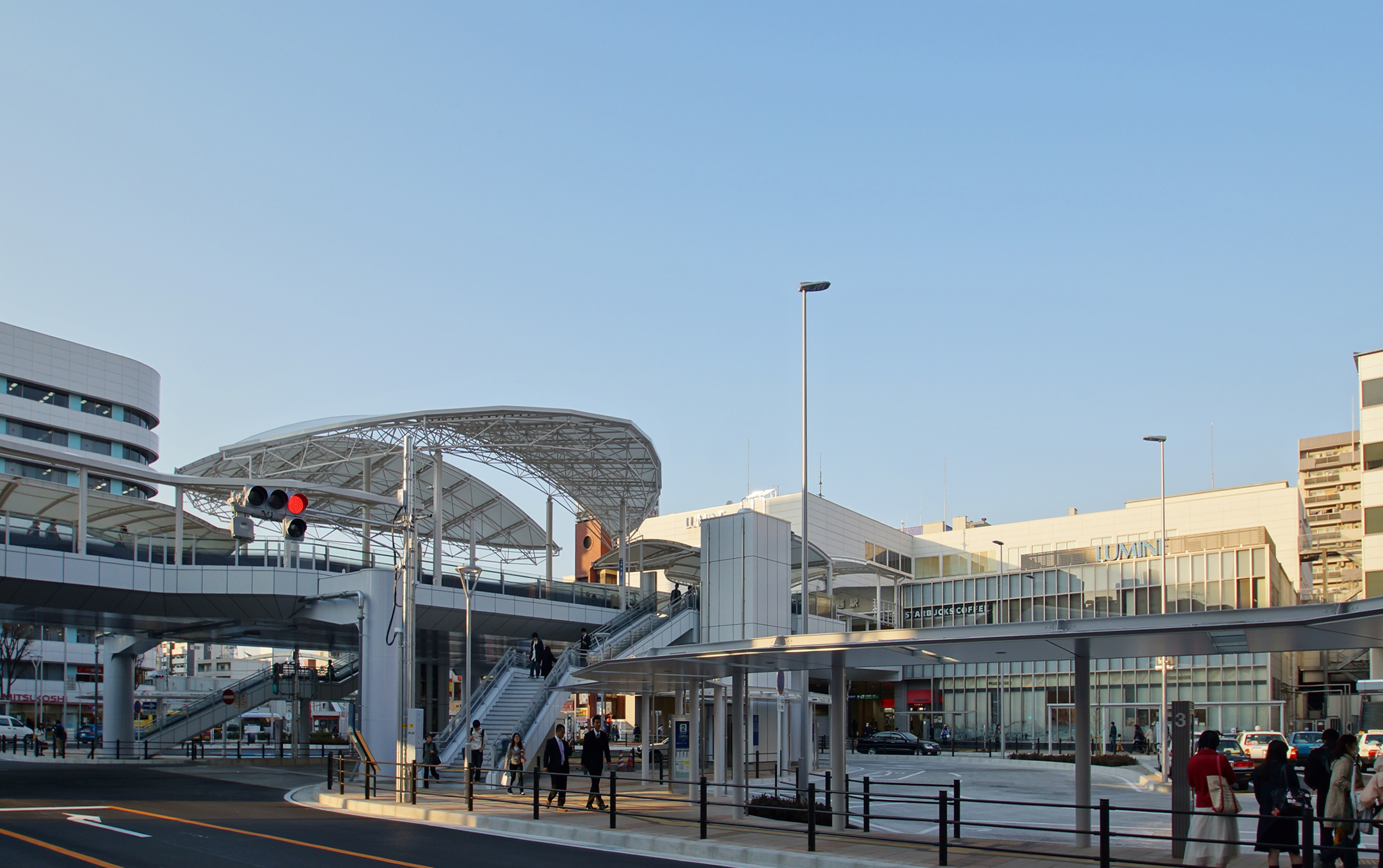 The elevated pedestrian walkway and station forecourt on the west side of Kawagoe Station in Saitama Prefecture, Japan